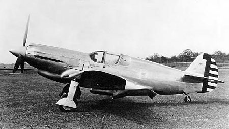 Curtiss XP-46